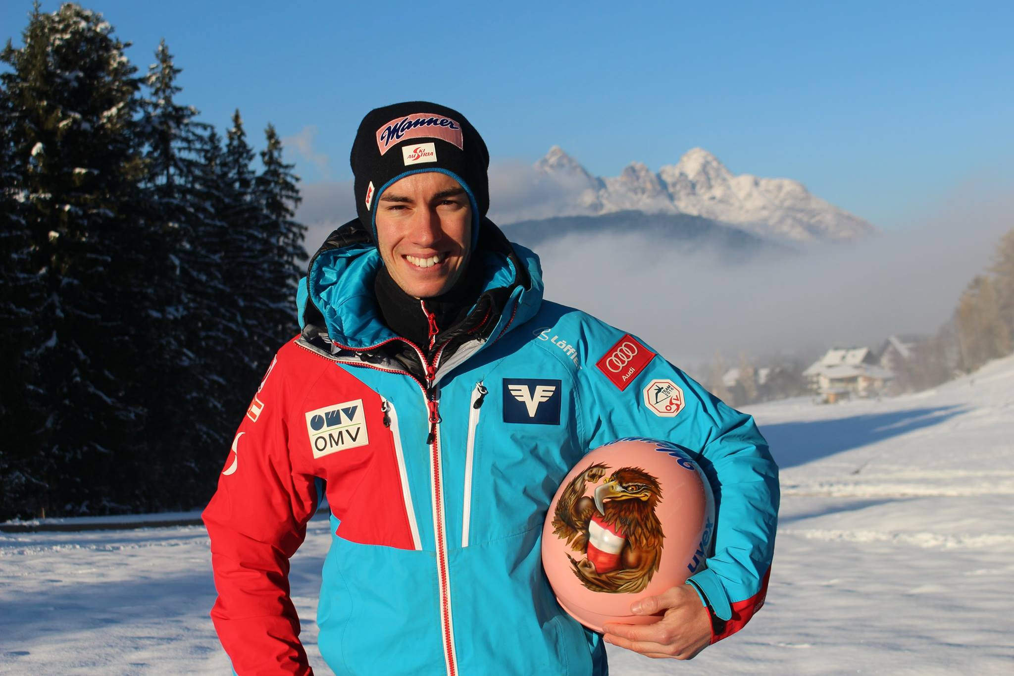 Stefan Kraft, ambassador of the 2017 Special Olympics World Winter Games